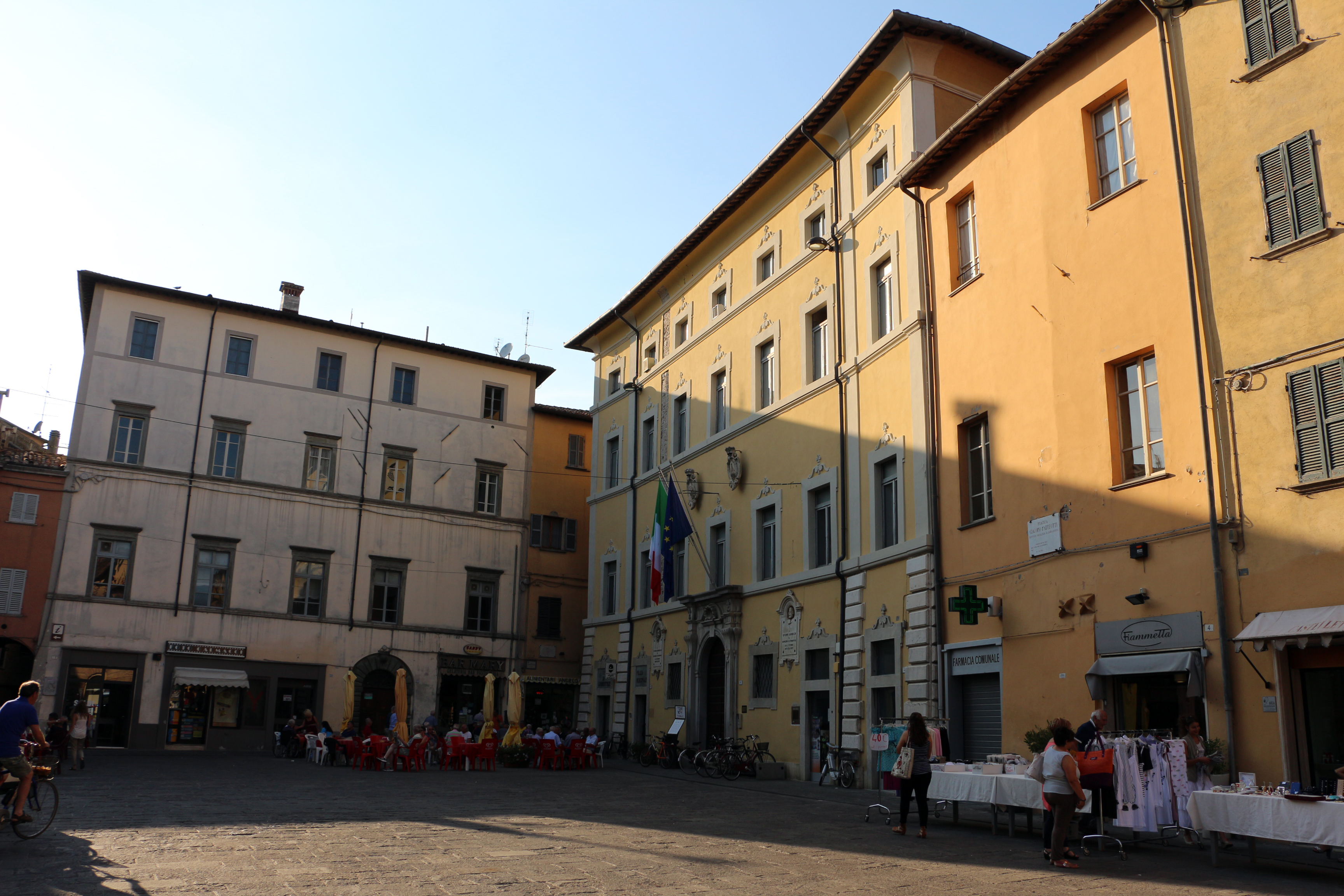 Umbertide